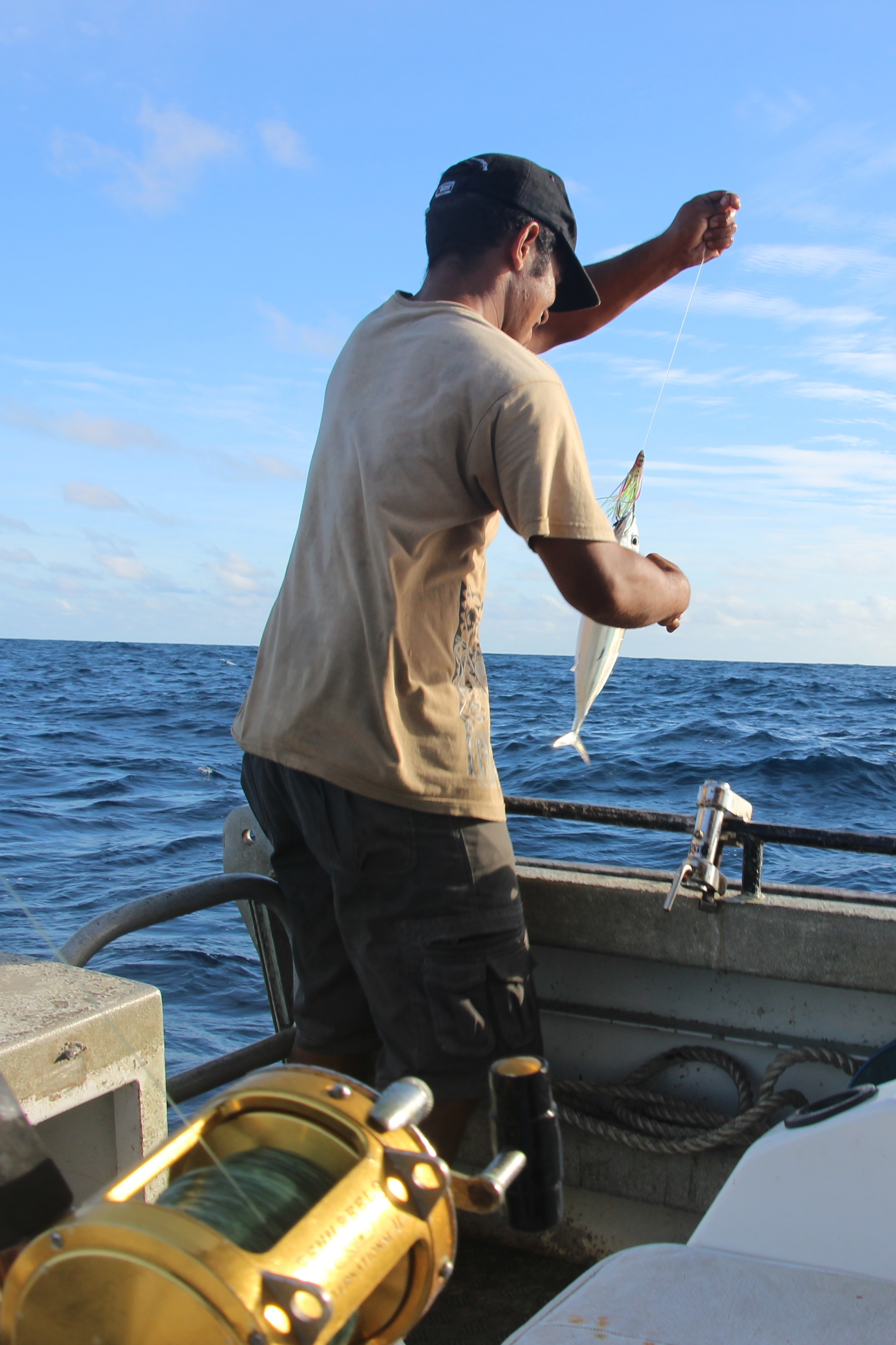 A Nauruan fisherman hauls in a catch, 1 June 2013.